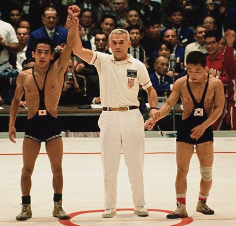 Yoshikatsu Yoshida (left) vs. Chang Chang-sun, freestyle wrestling, 1964 Olympics